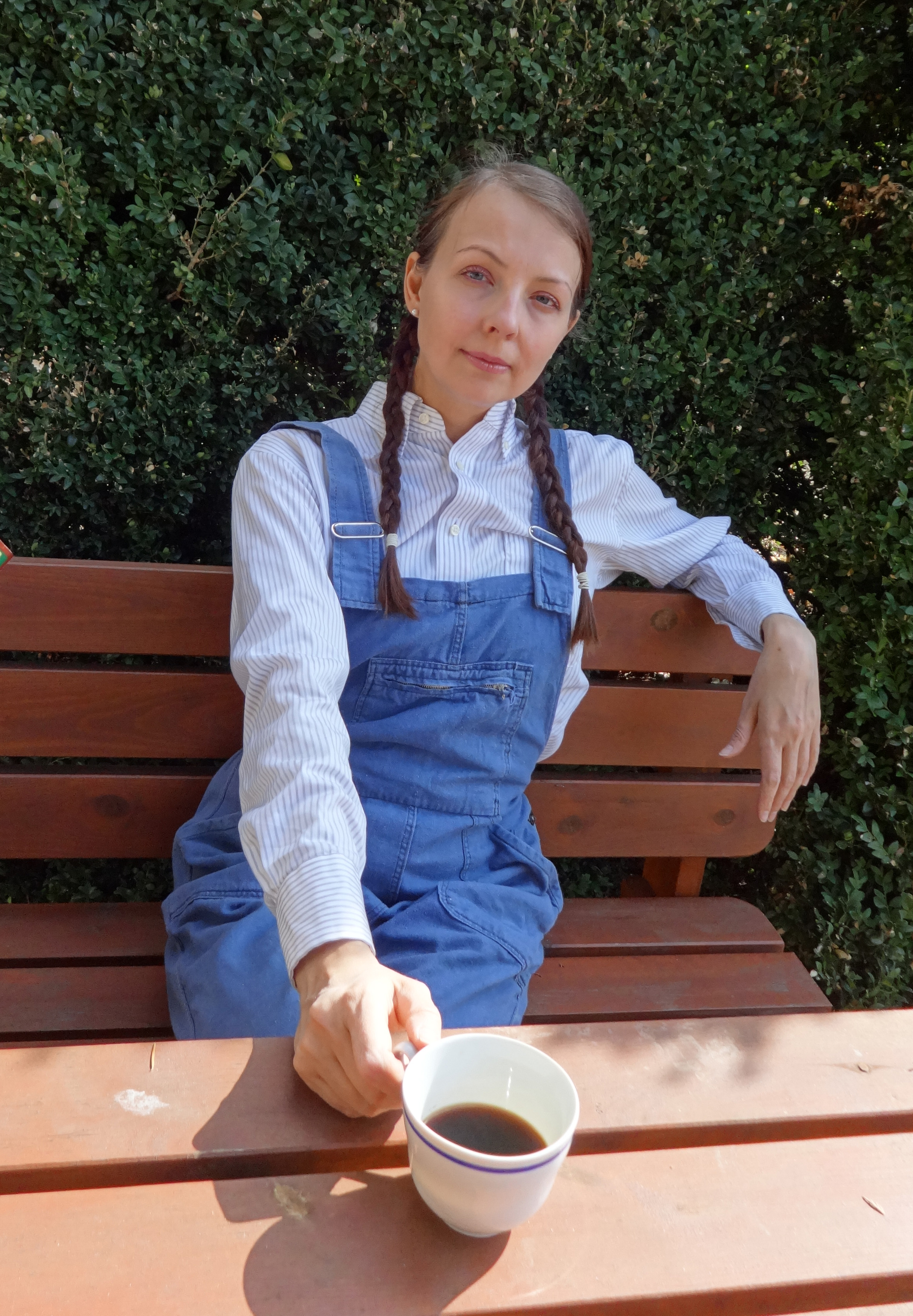 Vectomov in 2016